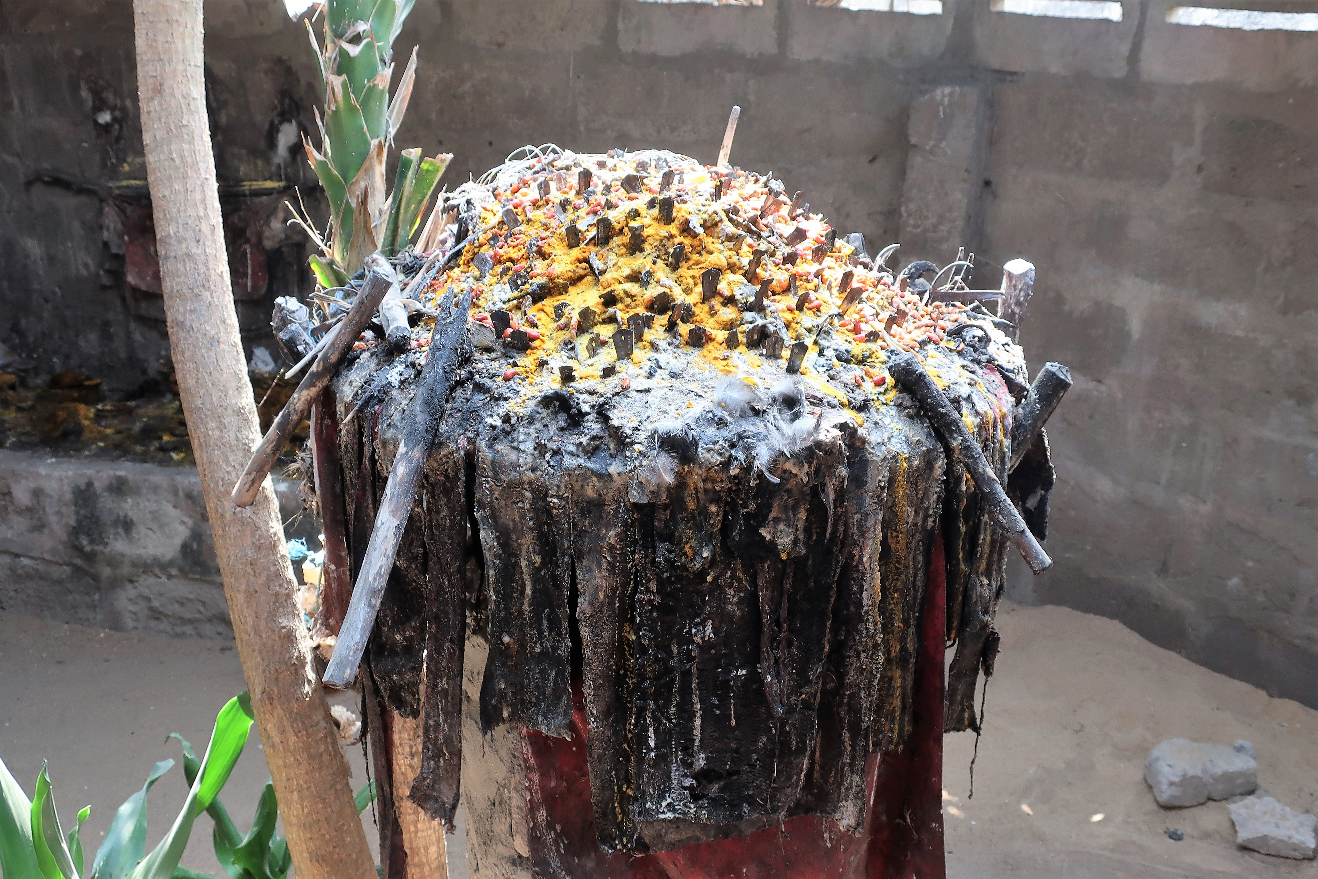 cloth, corn flowet and razor blades